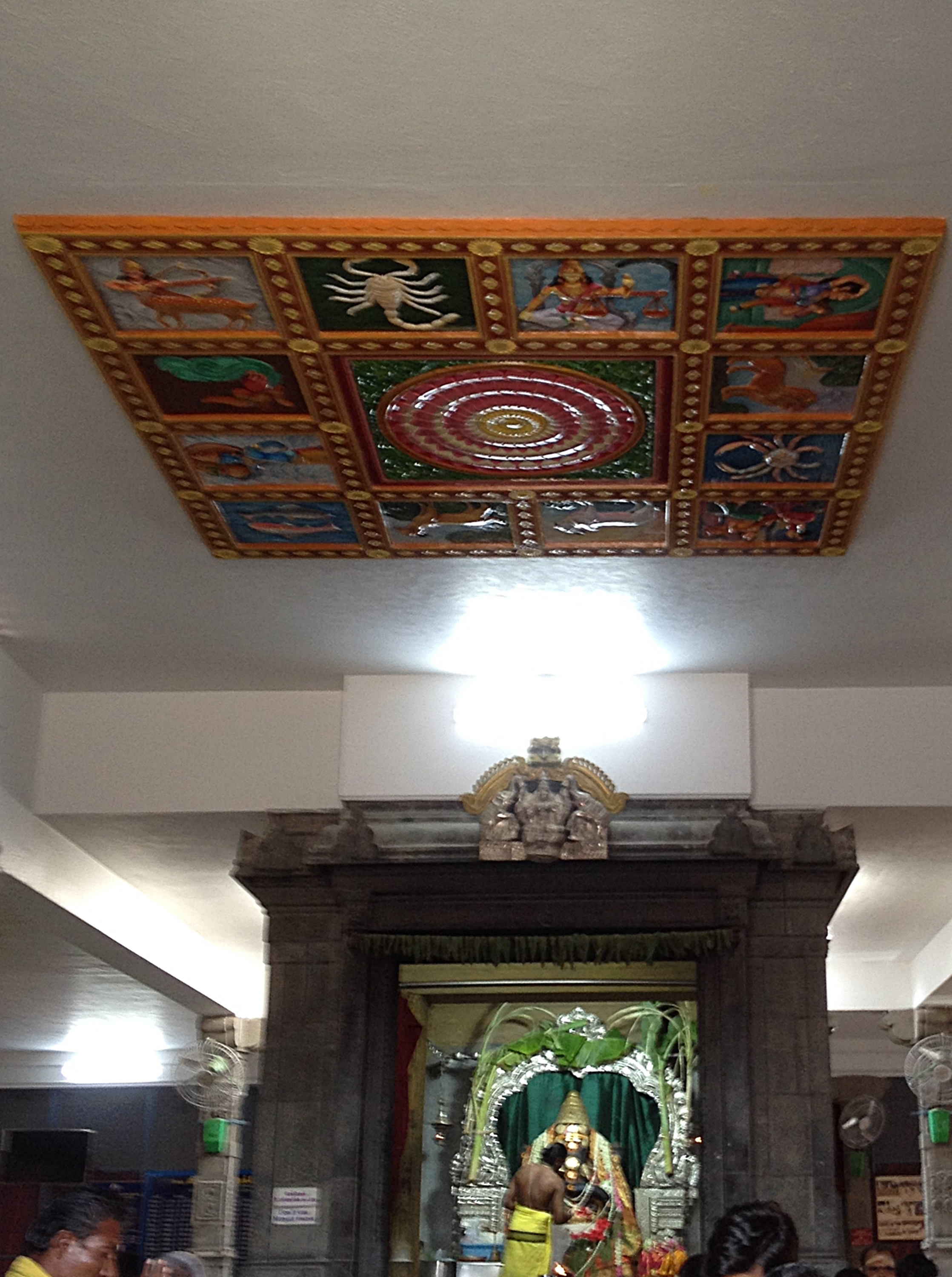 Eachanari Vinayagar Temple, Coimbatore